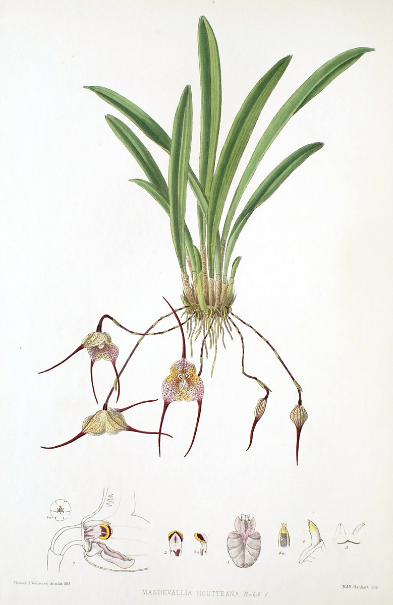 Illustration of Dracula houtteana from Florence H. Woolward: The Genus Masdevallia